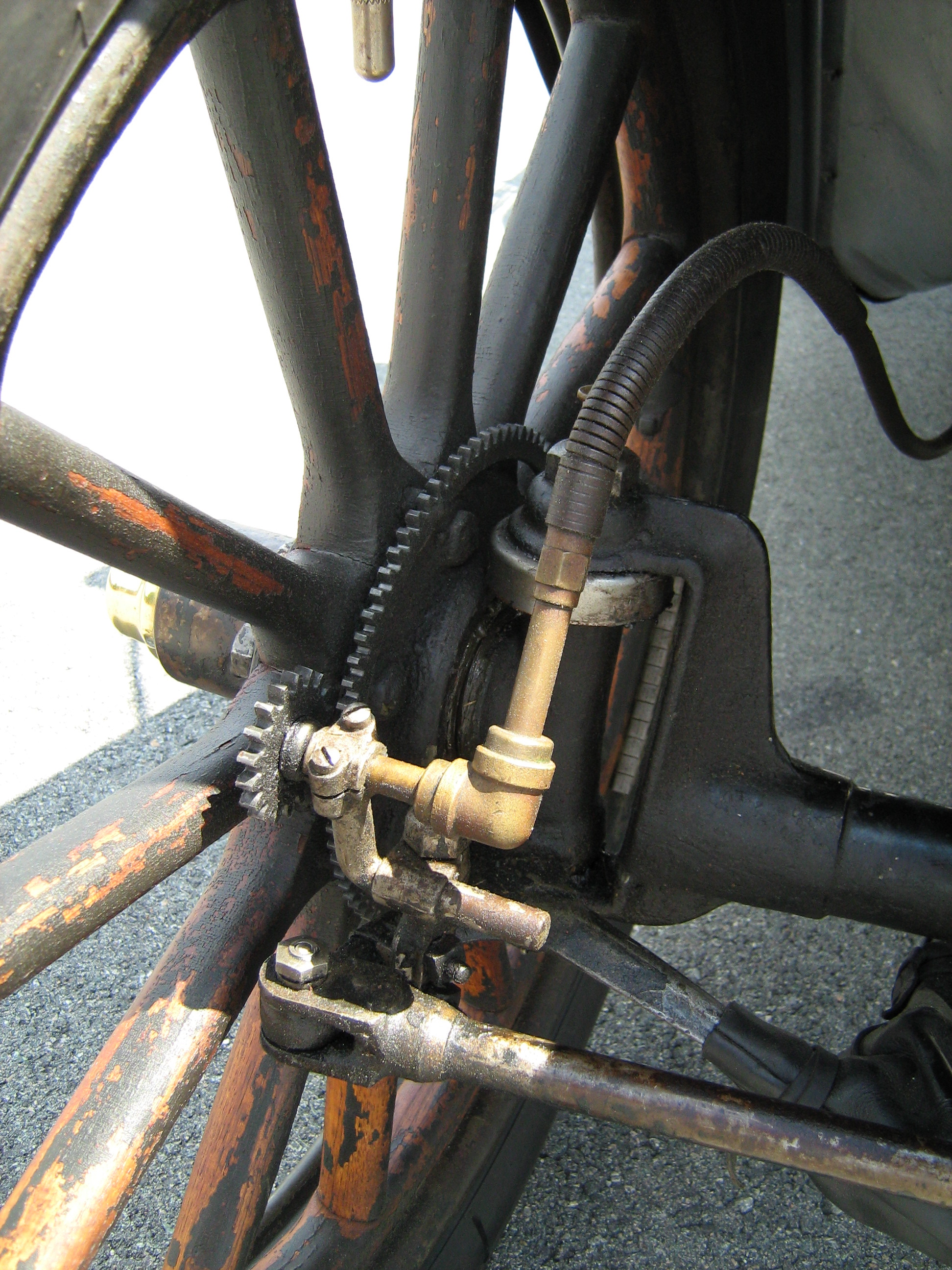 Detail of the steering and speedometer drive on the right front wheel of a 1909 Rambler model 44 touring car made by Thomas Jeffery & Company. This was the first automobile that came with a spare wheel and tire. Picture taken at the 2010 Richmond Region AACA show (Virginia).